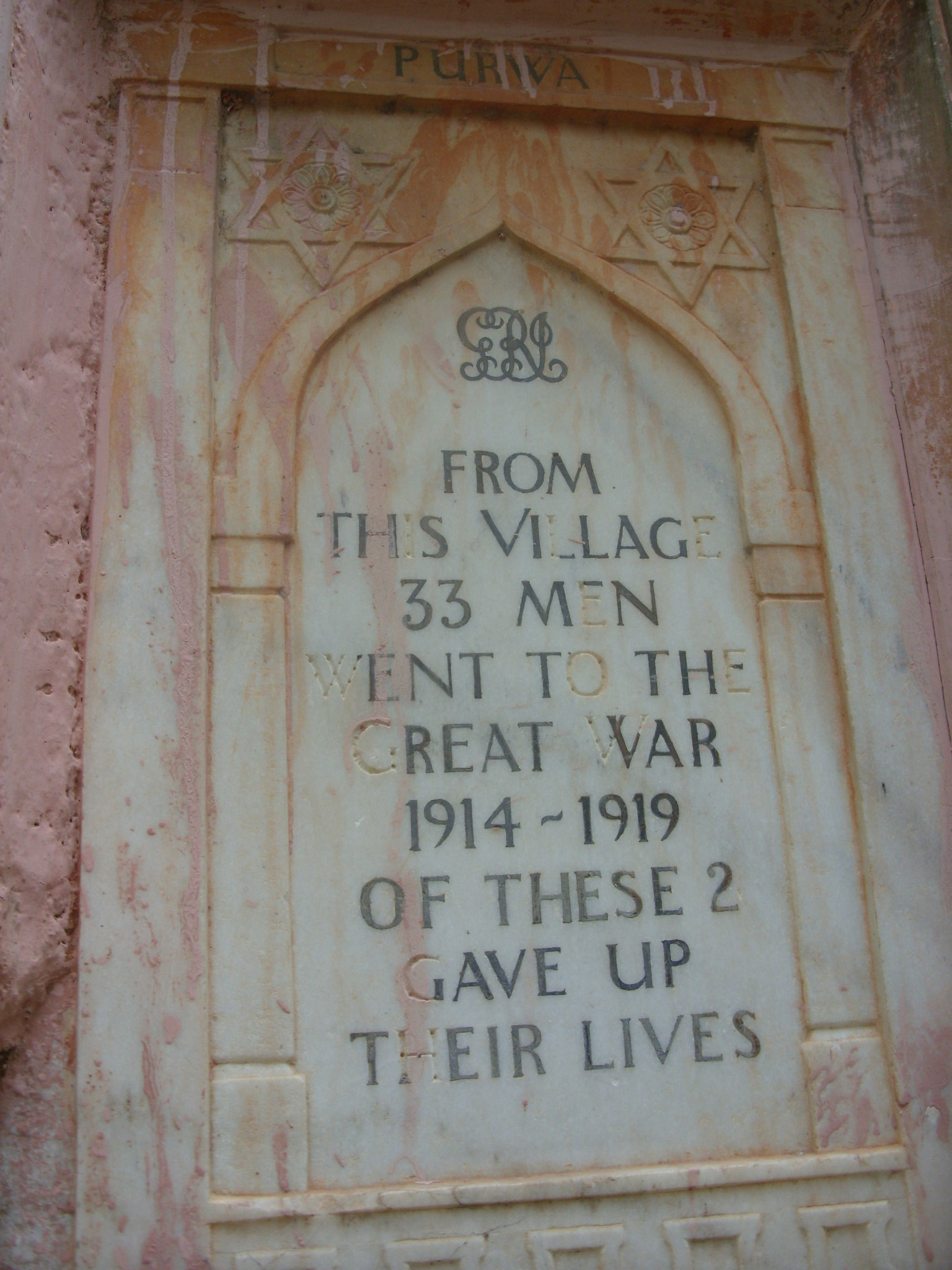 Marble plaque in Purwa village Unnao Uttar Pradesh